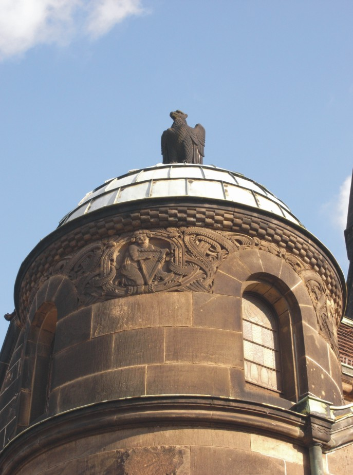 Church "Versöhnungskirche" in Dresden, small tower at the parish hall (Saxony, Germany)